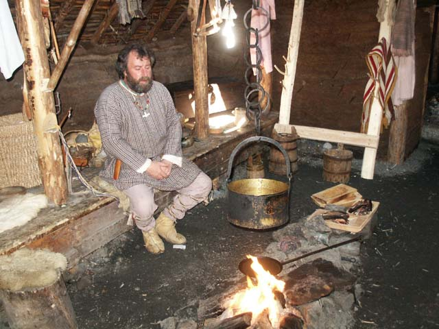 From Image:Carlb-ansemeadows-vinland-02.jpg. QuartierLatin1968 17:01, 17 August 2005 (UTC) The site of early Viking colonisation in L'Anse aux Meadows in the northwesternmost corner of the island of Newfoundland. This image has been released into the public domain by the copyright holder, its copyright has expired, or it is ineligible for copyright. This applies worldwide. user:carlb from a June 2002 travel photo